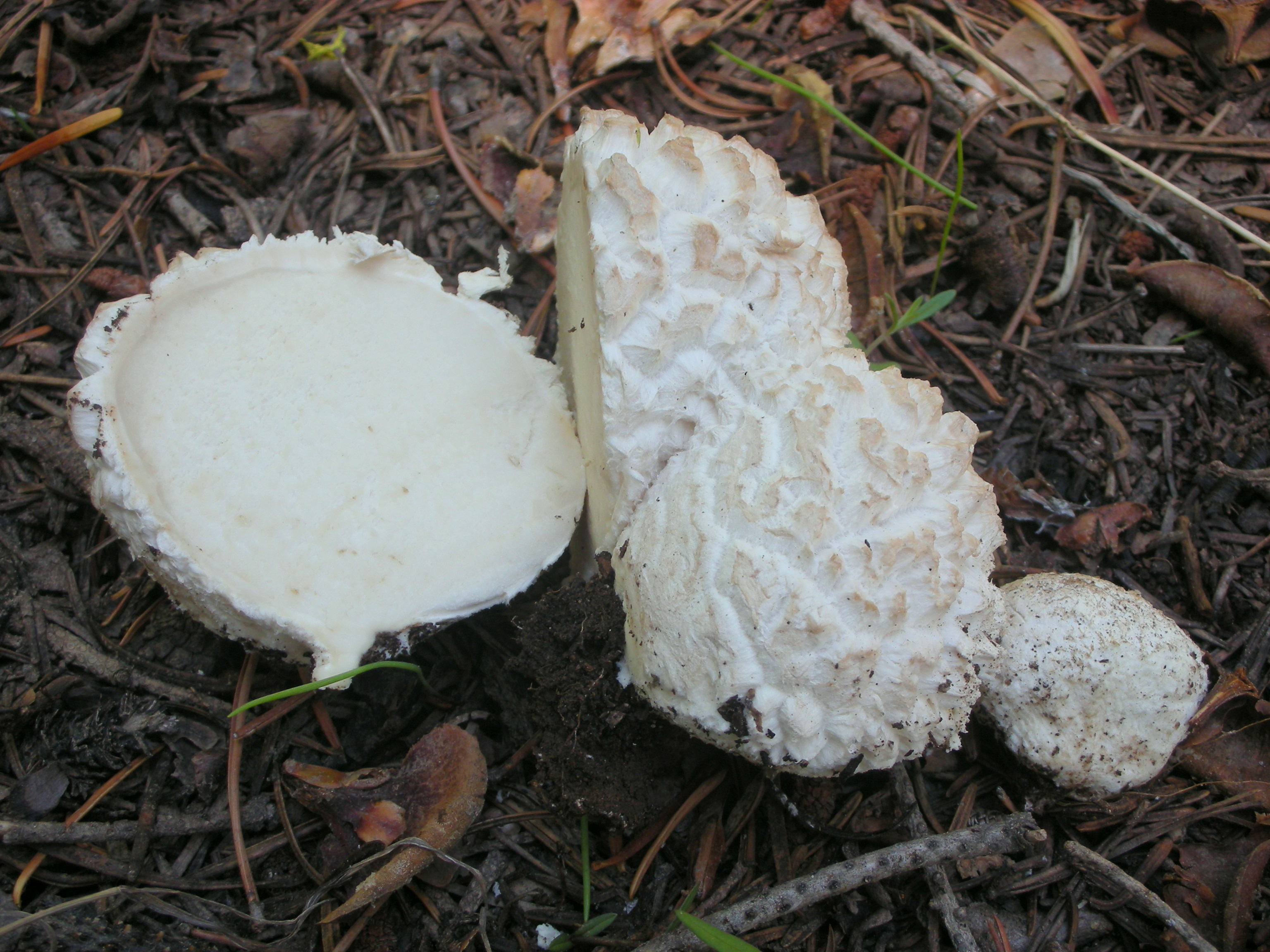 A bisected fruit body of the puffball fungus Calbovista subsculpta". Specimen found and photographed in Yuba Pass, Tahoe National Forest, Sierra Co., California, USA.